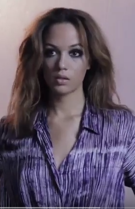 Eku Edewor's Genevieve Magazine Shoot in July 2014